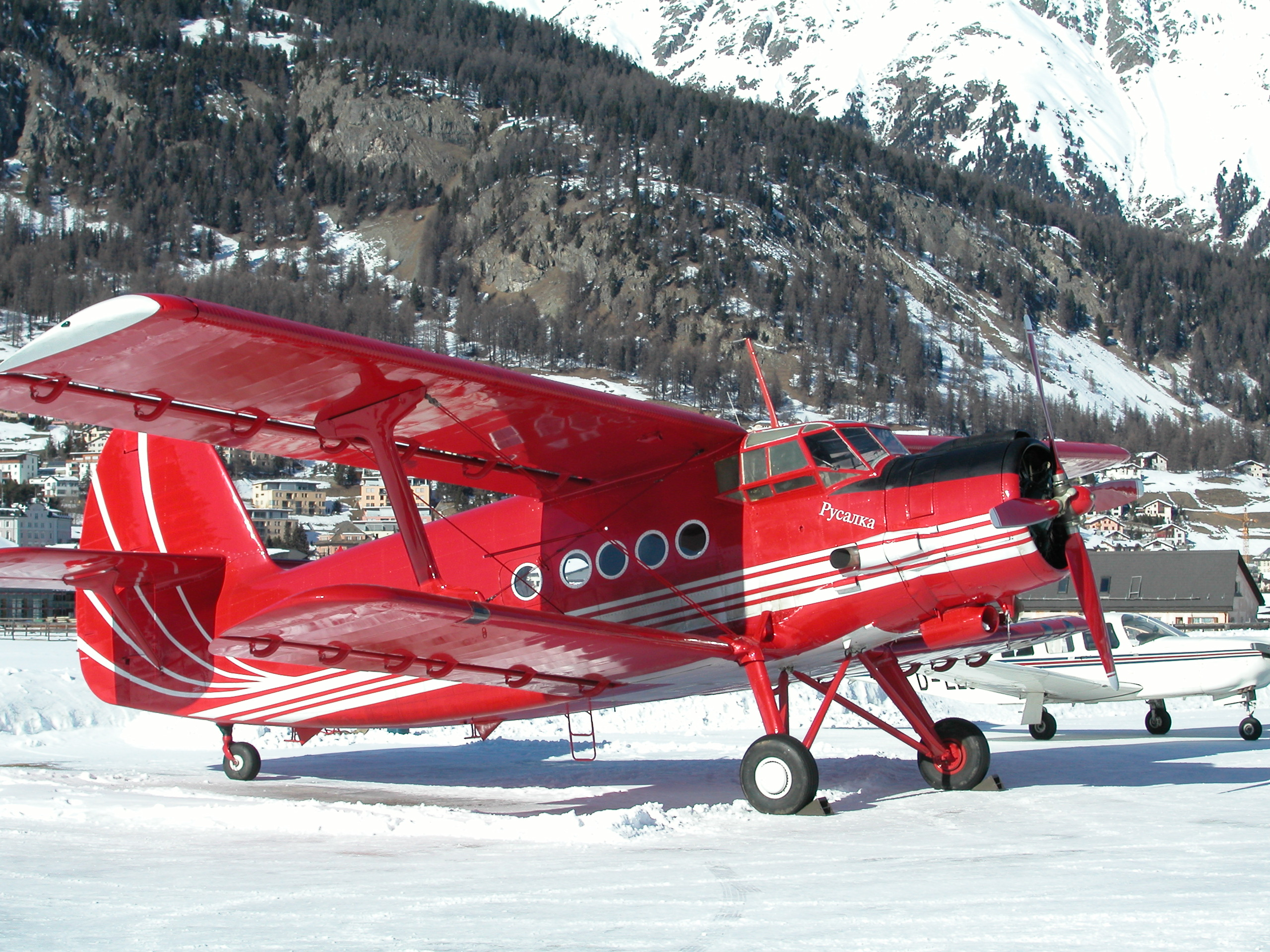 Antonov An-2 (An-2TP) "Rusalka". Immatriculation: YL-LEI. Owned and operated by the Antonov Club Avianna (based in Switzerland). The picture was taken at Samedan.